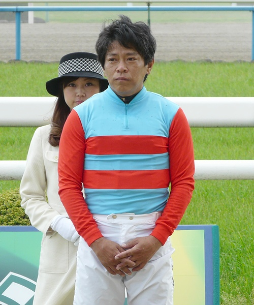 Mitsuaki-Hayashi20110514